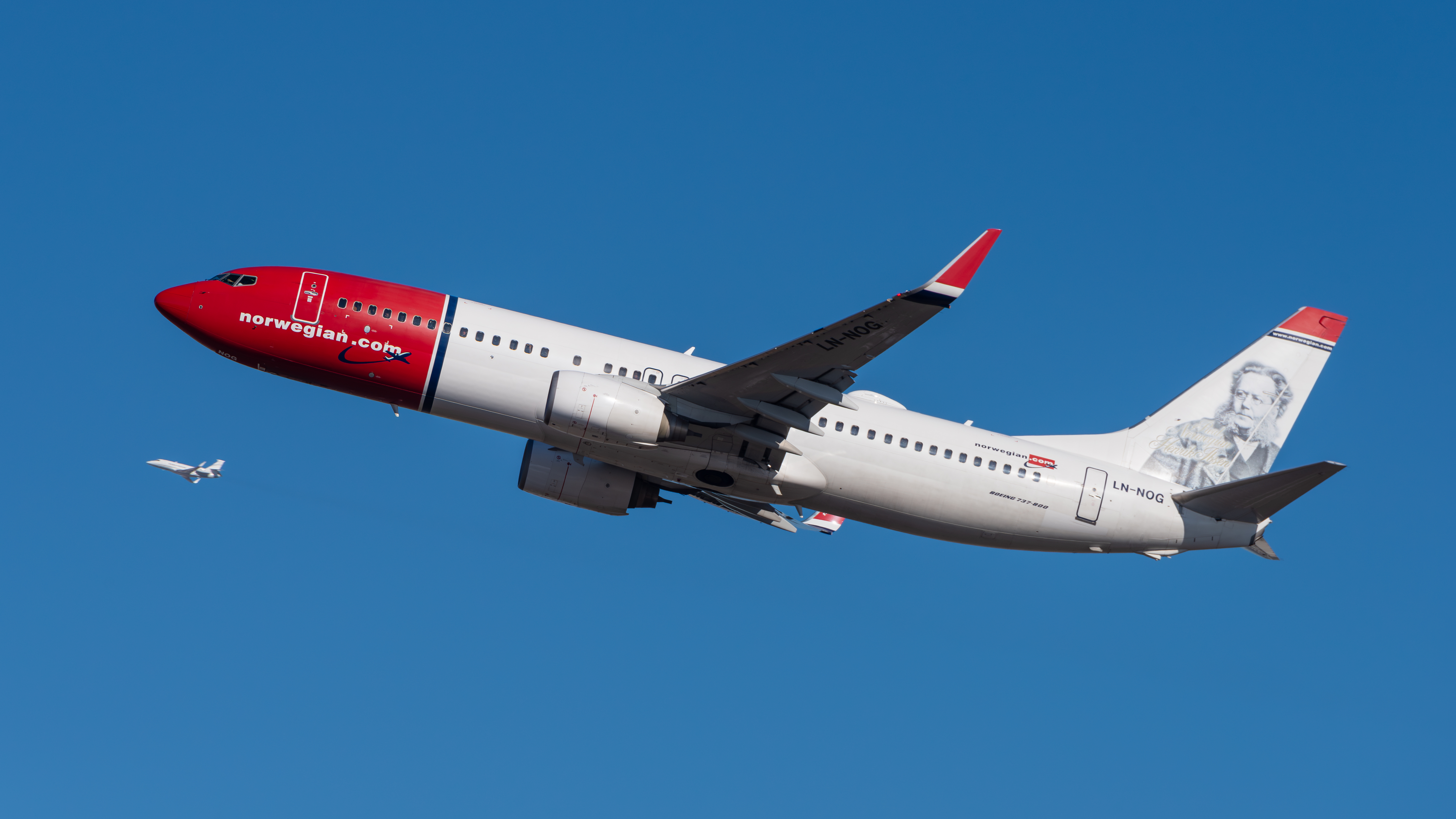 Norwegian Air Shuttle Boeing 737-86N (reg. LN-NOG, msn 35647) at Munich Airport (IATA: MUC; ICAO: EDDM).